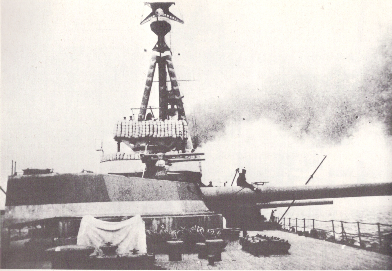 Photograph showing the twin 14-inch (356 mm) gun turret of a British Abercrombie-class monitor during World War I.